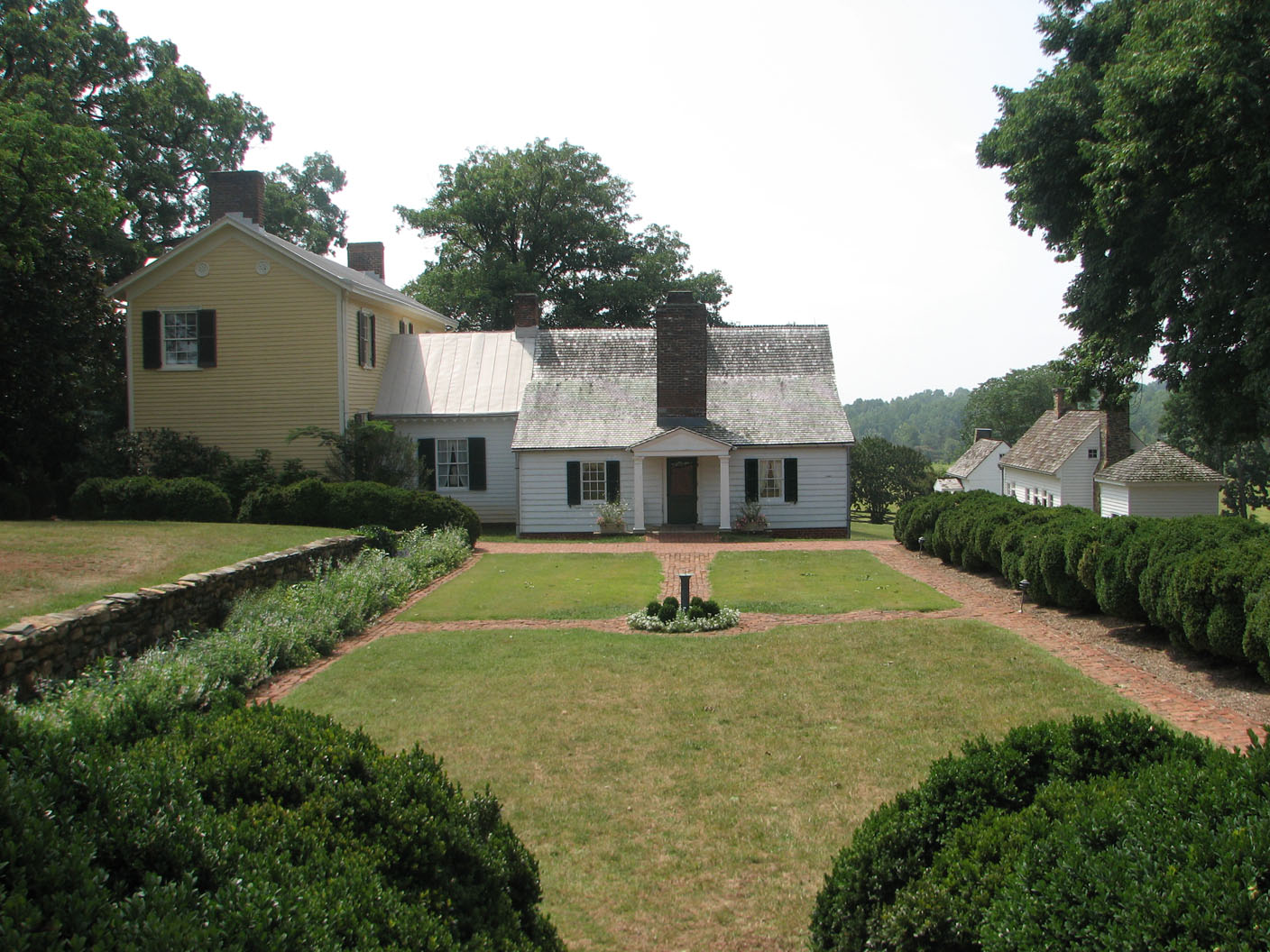 Photograph of Ash Lawn - Highland, home of President James Monroe, in Albemarle County, Virginia. Taken on August 29th, 2006, by RebelAt.